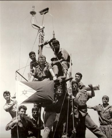 Victorious Israeli MTB crew raise the broom on the topmast as a traditional sign of victory